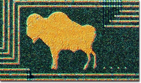 Image of a buffalo, trailing buffalo chips, etched on a digital filter chip from the HP3582a audio spectrum analyzer. Buffalo by Kathy Mazzotta, Yvette Norman, and Sandy Shertzer. From the Molecular Expressions: Silicon Zoo website of Florida State University, by permission of Prof. Michael W. Davidson Here is the email trail where Prof. Davidson gave permission: From: Michael W. Davidson [1] Sent: Wed 1/4/2006 8:48 AM To: Louis Scheffer Subject: RE: Can I use a picture of your on Wikipedia? Lou, That will be fine. Mike Michael W. Davidson National High Magnetic Field Laboratory 1800 East Paul Dirac Drive The Florida State University Tallahassee, Florida 32310 Phone: 850-644-0542 Web: Molecular Expressions ( From: Louis Scheffer [2] Sent: Tuesday, January 03, 2006 6:58 PM To: Subject: Can I use a picture of your on Wikipedia? Hi, Prof. Davidson! I made a Wikipedia page for silicon art. It refers, of course, to your web site for examples. I'd like to have an example for the page, and was wondering if I could I use one of your pictures? I was thinking of the picture on because, as an original author, I can get the permissions for the design itself, so all I'd need is permission to use your picture of it. Can I get this permission? I'd be more than happy to credit you, and your web site, which I think is great. Thanks, Lou Scheffer